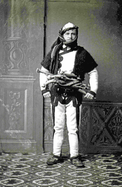 Theodor Ippen in Shkodra, dressed in a northern Albanian costume. Photo taken in 1900 by Pietro Marubi who died in 1903.